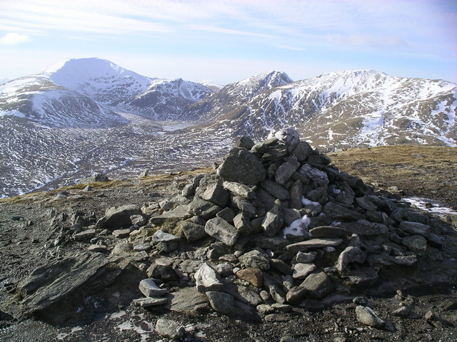 Meall Greigh : Munro No 136 The summit cairn (1001m) with the view to the west. From left are Ben Lawers (1214m), An Stuc (1118m), and Meall Garbh (1118m).